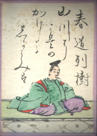 A portrait of Harumichi no Tsuraki; illustration from an uta-garuta playing card for Hyakunin Isshu, created in the Edo period.